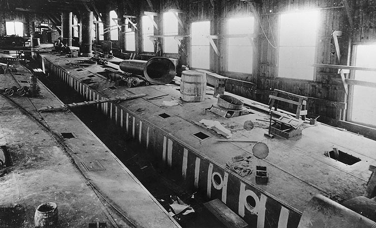 Photo #: NH 64059. USS DeLong (Torpedo Boat # 28). Under construction at the George Lawley & Sons shipyard, South Boston, Massachusetts, 3 July 1900. Probably photographed from on board her sister torpedo boat, USS Blakely (Torpedo Boat # 27). Photograph from the Skerritt Collection, Bethlehem Steel Corporation Archives. Provided by courtesy of the Smithsonian Institution. U.S. Naval Historical Center Photograph.